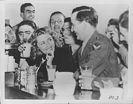 American actress Joan Blondell eats with U.S. soldiers at a North Atlantic base while on a United Service Organization (USO) camp show tour, during World War II.